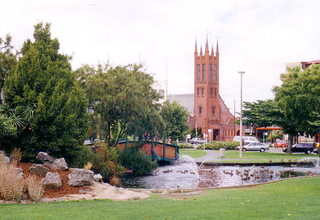 The Square, in the heart of Palmerston North, New Zealand. The church is All Saints' Church (Anglican), New Zealand Historic Places Trust Register number: 191.